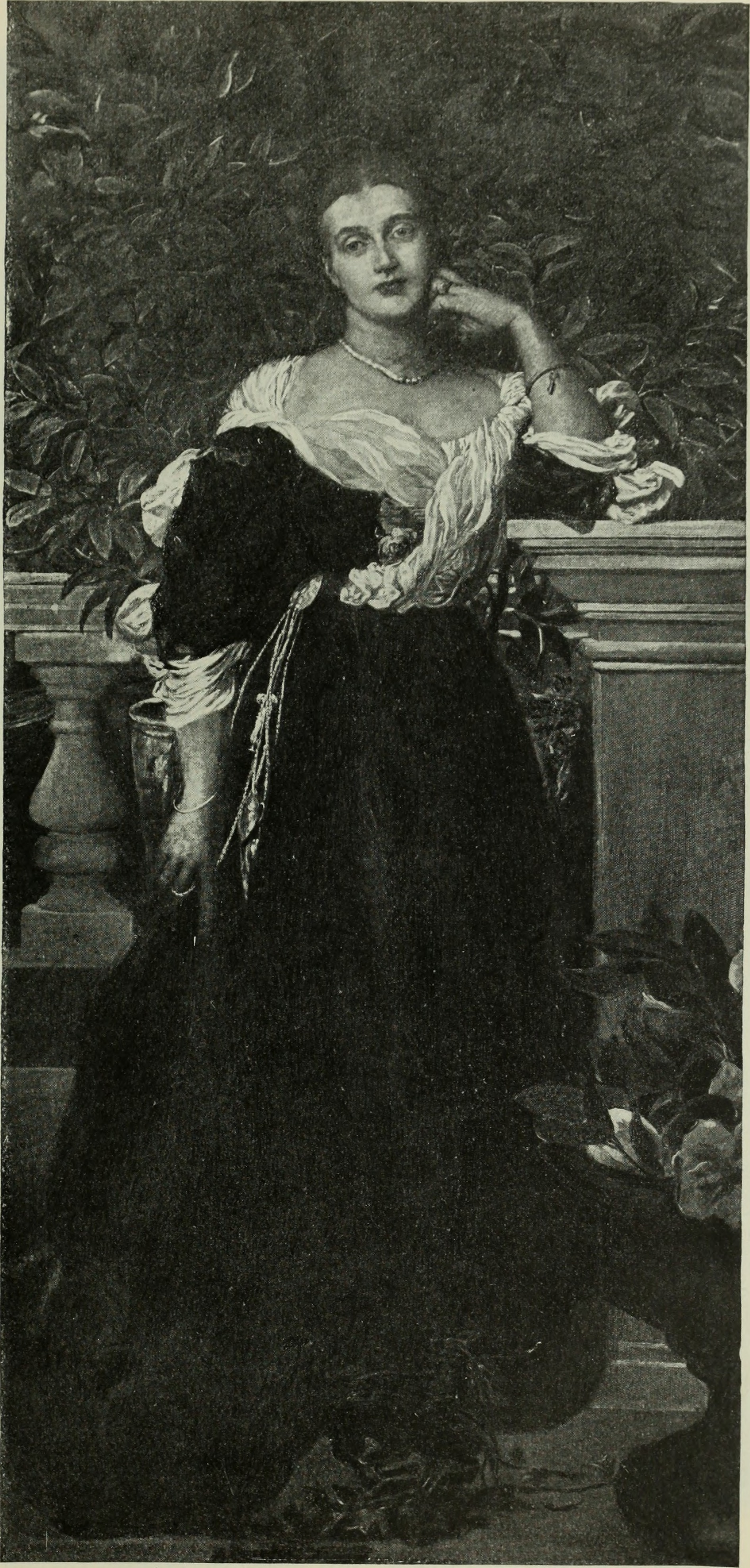 Mrs. Percy Wyndham, by George Frederic Watts (born Madeline Caroline Frances Eden Campbell, daughter of Sir Guy Campbell, 1st Baronet, and his wife Pamela FitzGerald, daughter of Lord Edward FitzGerald) Title: Scribner's magazine Year: 1887 (1880s) Authors: Subjects: Publisher: New York : C. Scribner's Sons Text Appearing Before Image: Iris—the latest picture painted Cy iVn.(Photographed by F. Hollyer.) Text Appearing After Image: Hon. Mrs. Percy Wyndham—in the possession of Hon. Percy Wyndham.(P^lOtographed by F. Hollyer.) Vol. XYI.—77